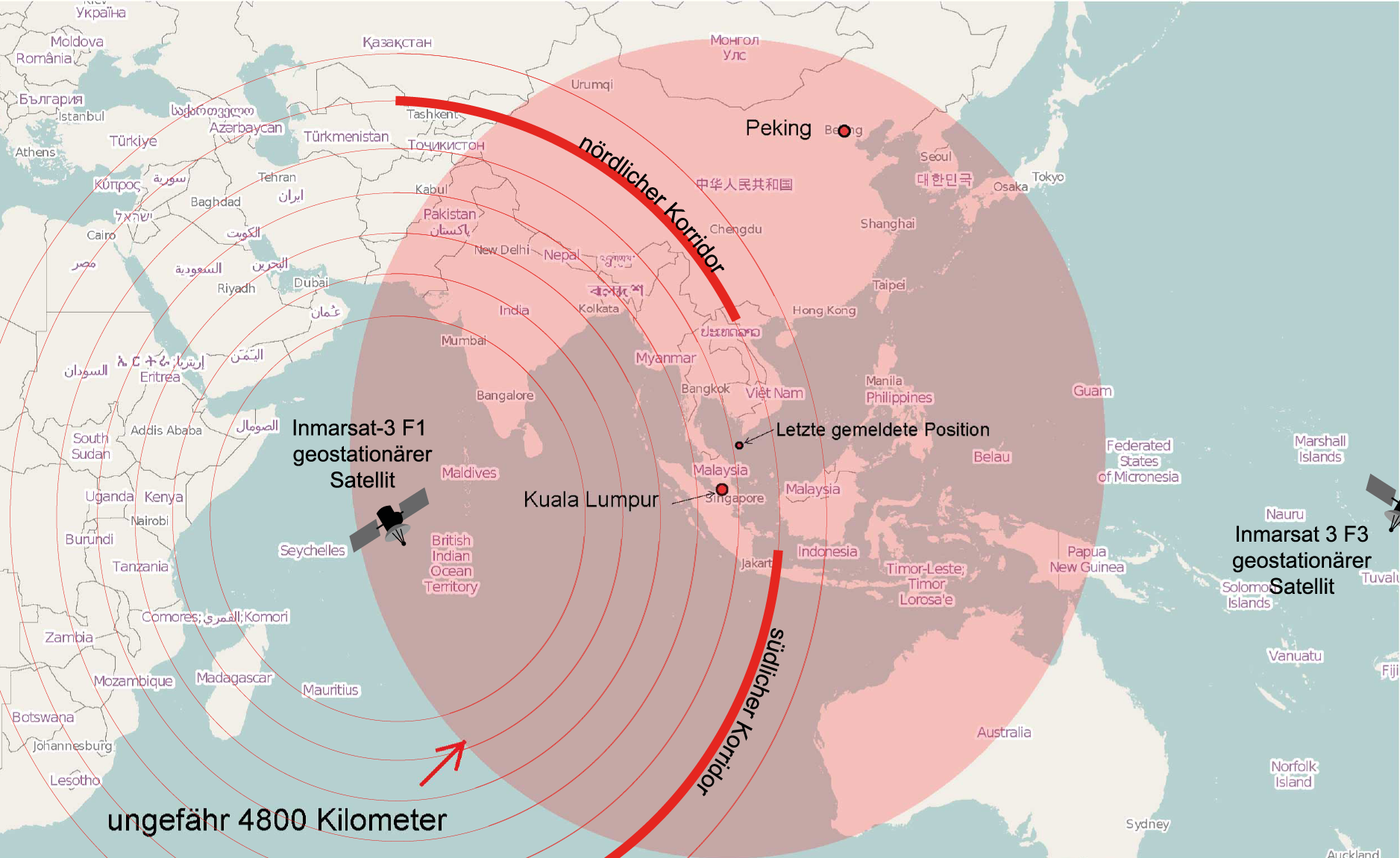 Map of the area, where Malaysia Airlines Flight 370 could be found theoretically.